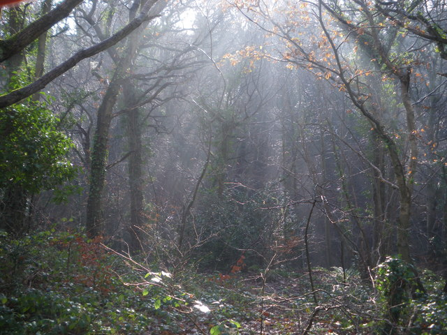 Coed y Garth Looking south through the woods over Afon y Garth on a crisp December day.